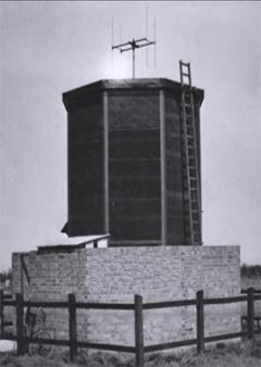 Photograph of the Beeston hill ‘Y’ station in the town of Sheringham, Norfolk, UK